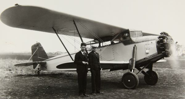 1929 Stearman CAB-1 Coach NX8808 c.n 3001